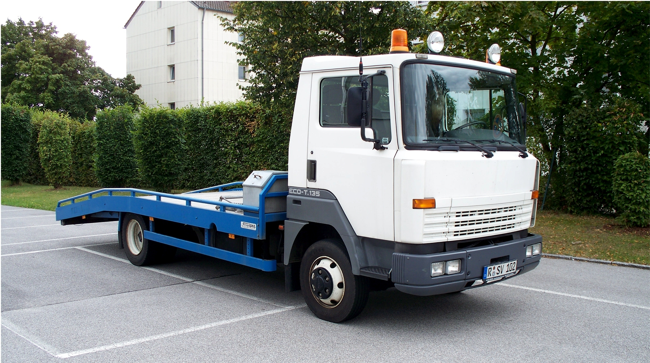 A Nissan Eco T135 car transporter